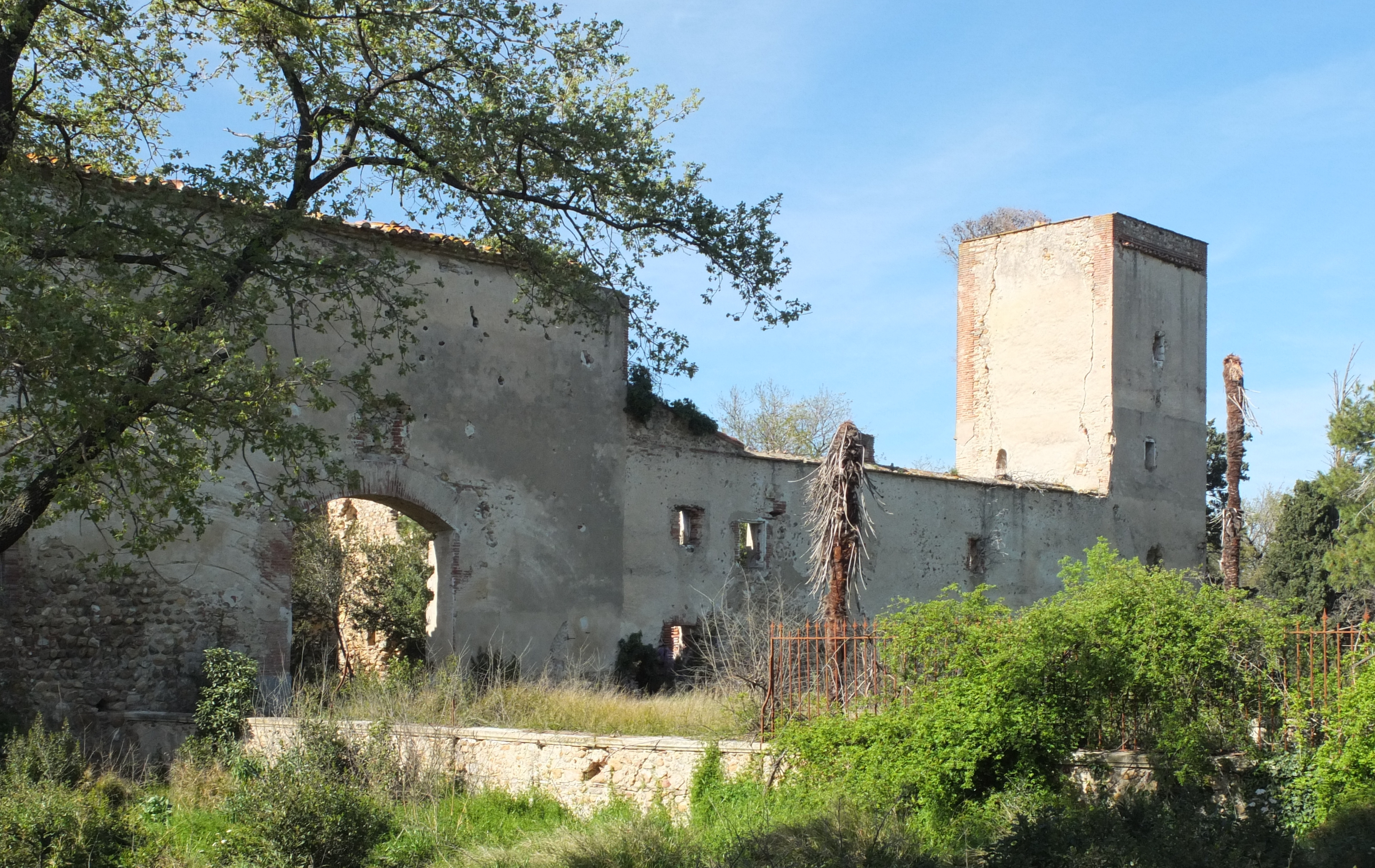 Ruin of Commanderie du Mas Déu, Trouillas, France (view from S). Walls mainly built in the 18th and 19th century on the foundations of the romanesque Templar fortification, destroyed in 1944.